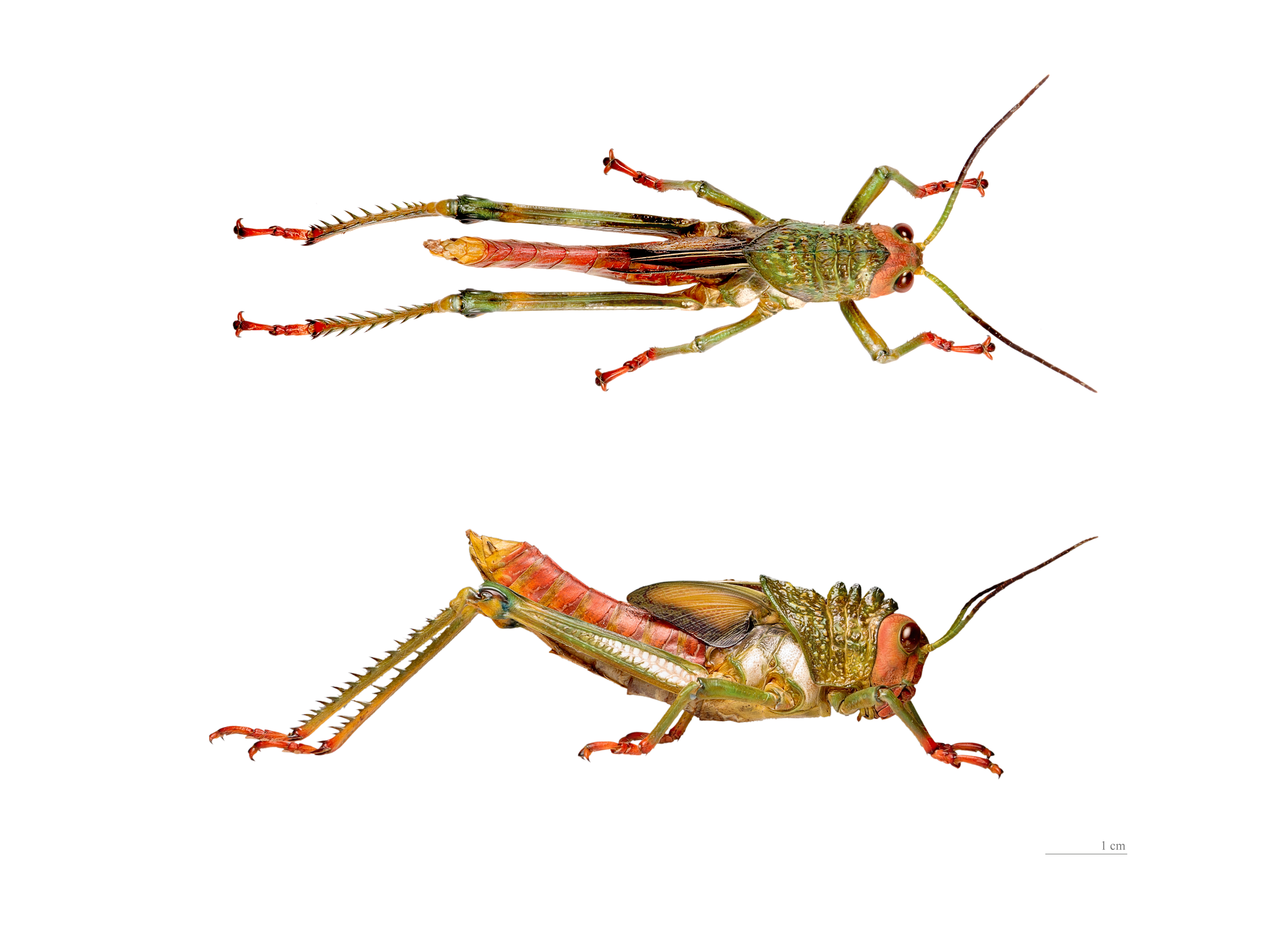 ♂ - nymph Locality : Route de Kaw, PK40, French Guiana.